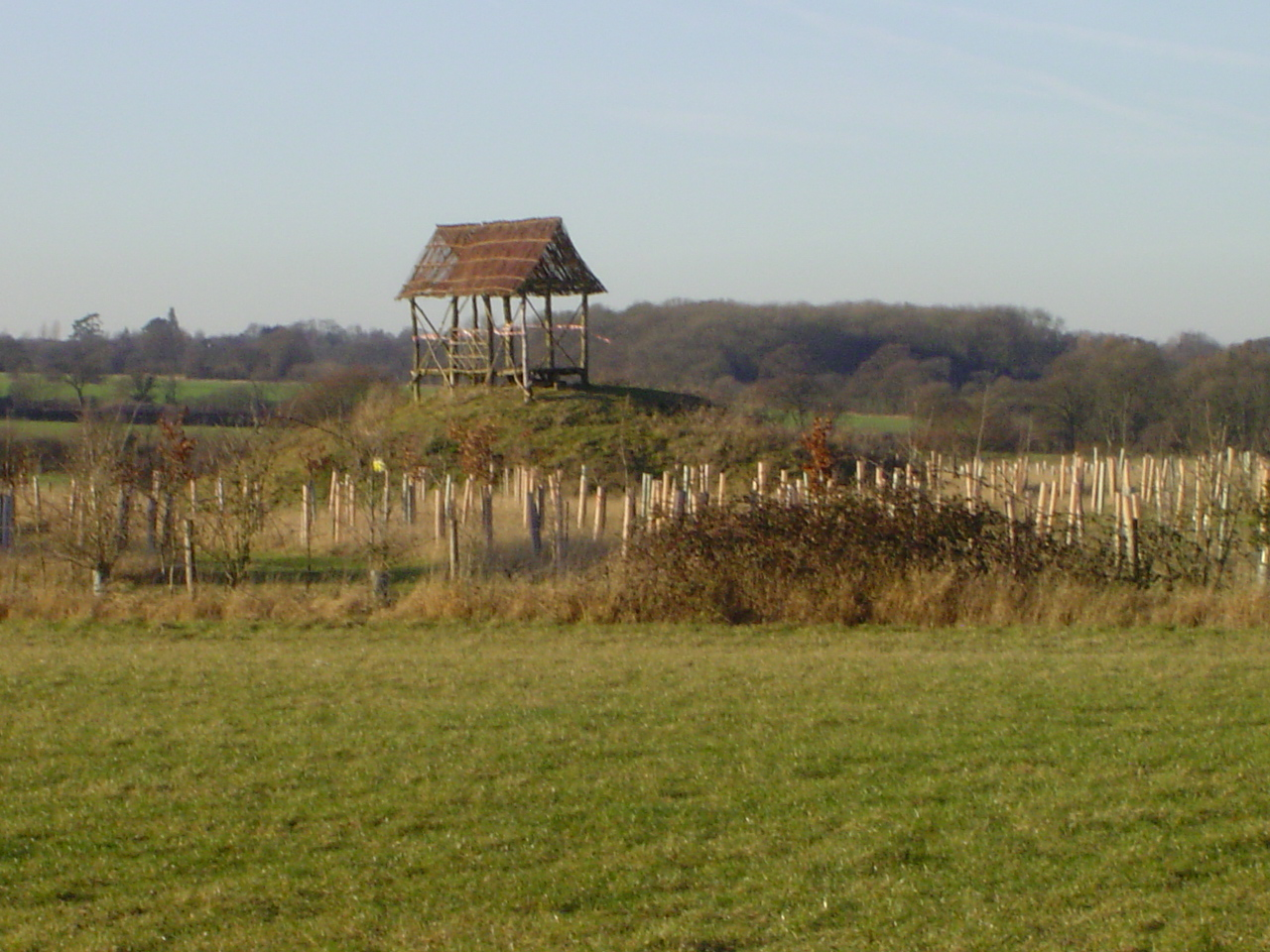 A Hauswin - traditional rainforest Wind House - at Golden Wood, Lawshall, Suffolk. It was built with the assistance of five Hunstein Rangers from Papua New Guinea